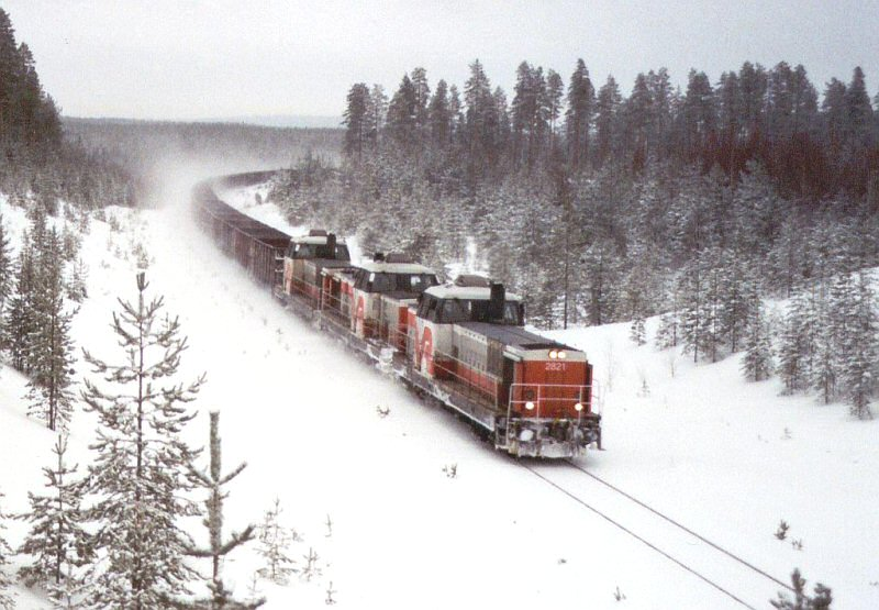 Taconite train T5361 enroute from Vartius to Raahe, Finland, passing Laahtanen highway overpass in Ristijärvi, Finland. Dr16 class diesel-electric locomotives are hauling 60 Russian gondolas loaded with taconite from Kostamus/Kostomuksha. The total weight of the train is 5,500 metric tons and the train is 893 meters (2,929 feet) in length. Train T5361 is one of the heaviest regularly scheduled freight trains operating in Finland. Apologies regarding the poor quality.